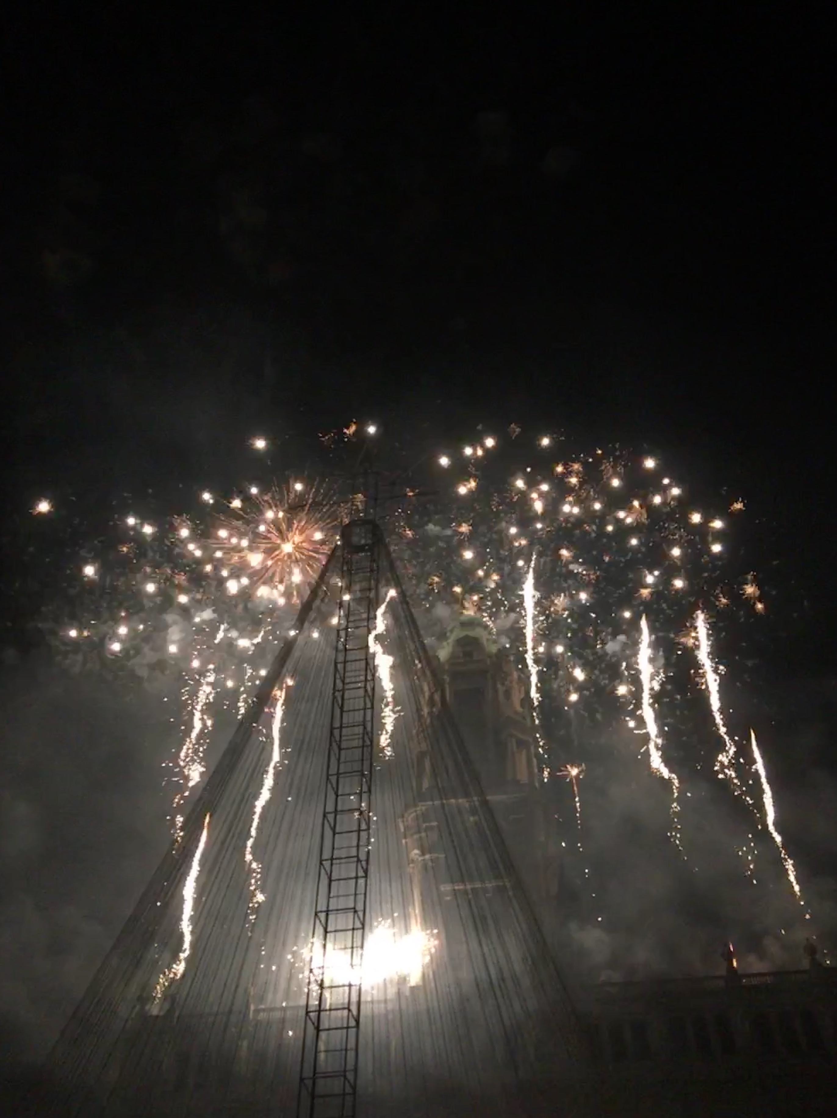 Portugal - New Year 2019